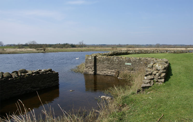 Threave Castle (Dumfries and Galloway, Scotland) - harbour